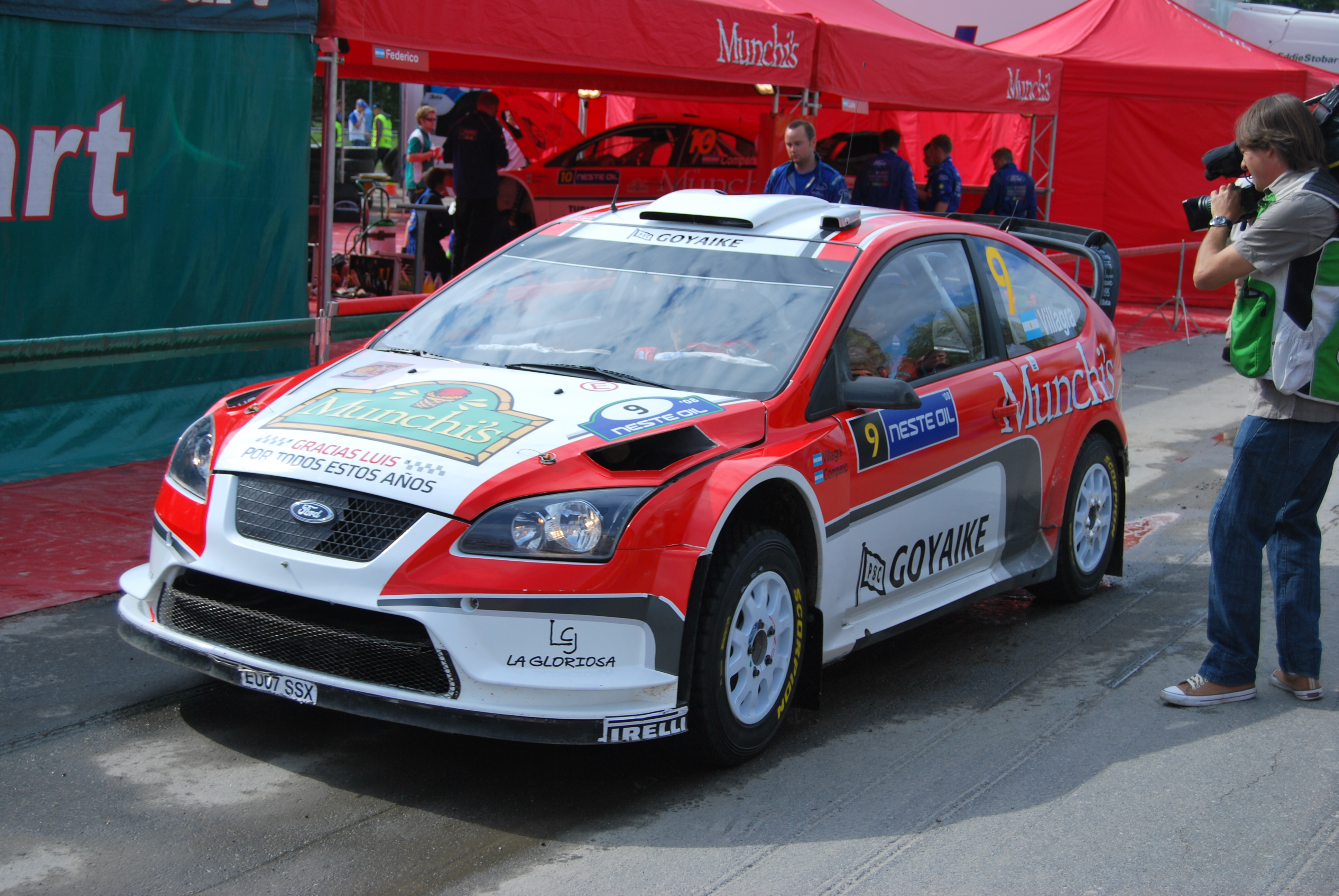 A service during 2008 Rally Finland.